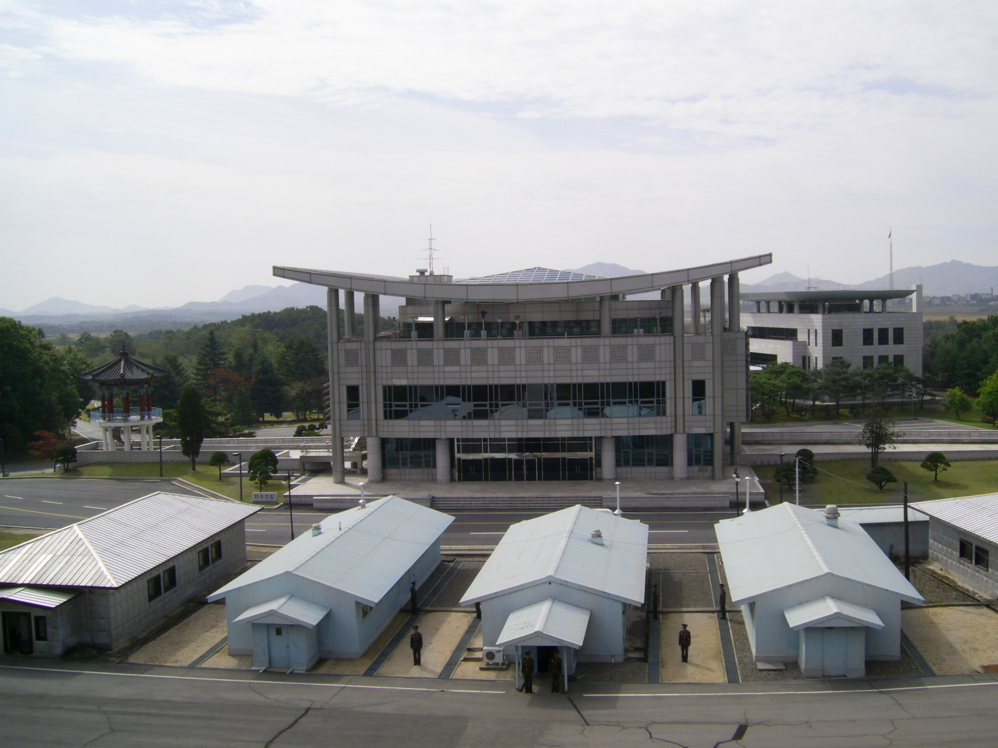 The Joint Security Area in the DMZ, looking toward South Korea from the North. Conference Row seen from the northern side of the JSA.